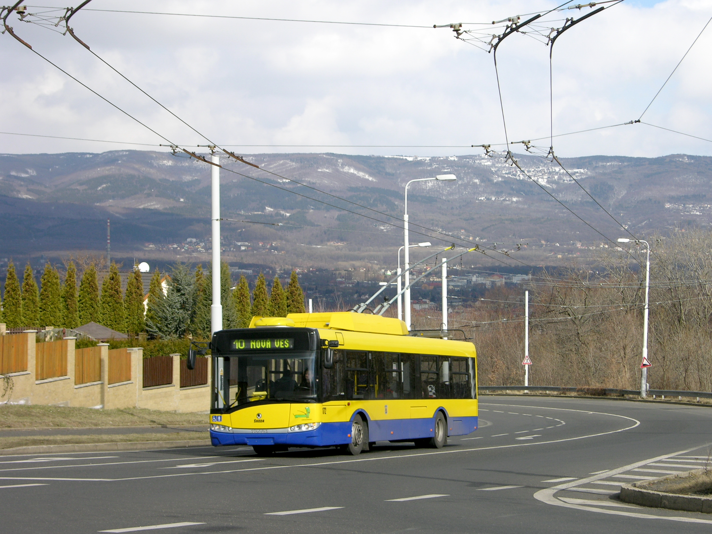 Škoda 26Tr Solaris trolleybus (nr 172) in Teplice, Czech Republic. Built 2009.